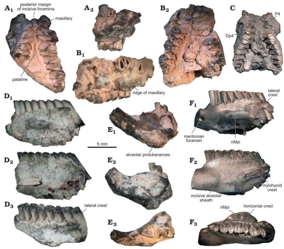 Dentition of Neocavia pampeana from the Cerro Azul Formation, Argentina